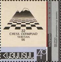 32nd Chess Olympiad